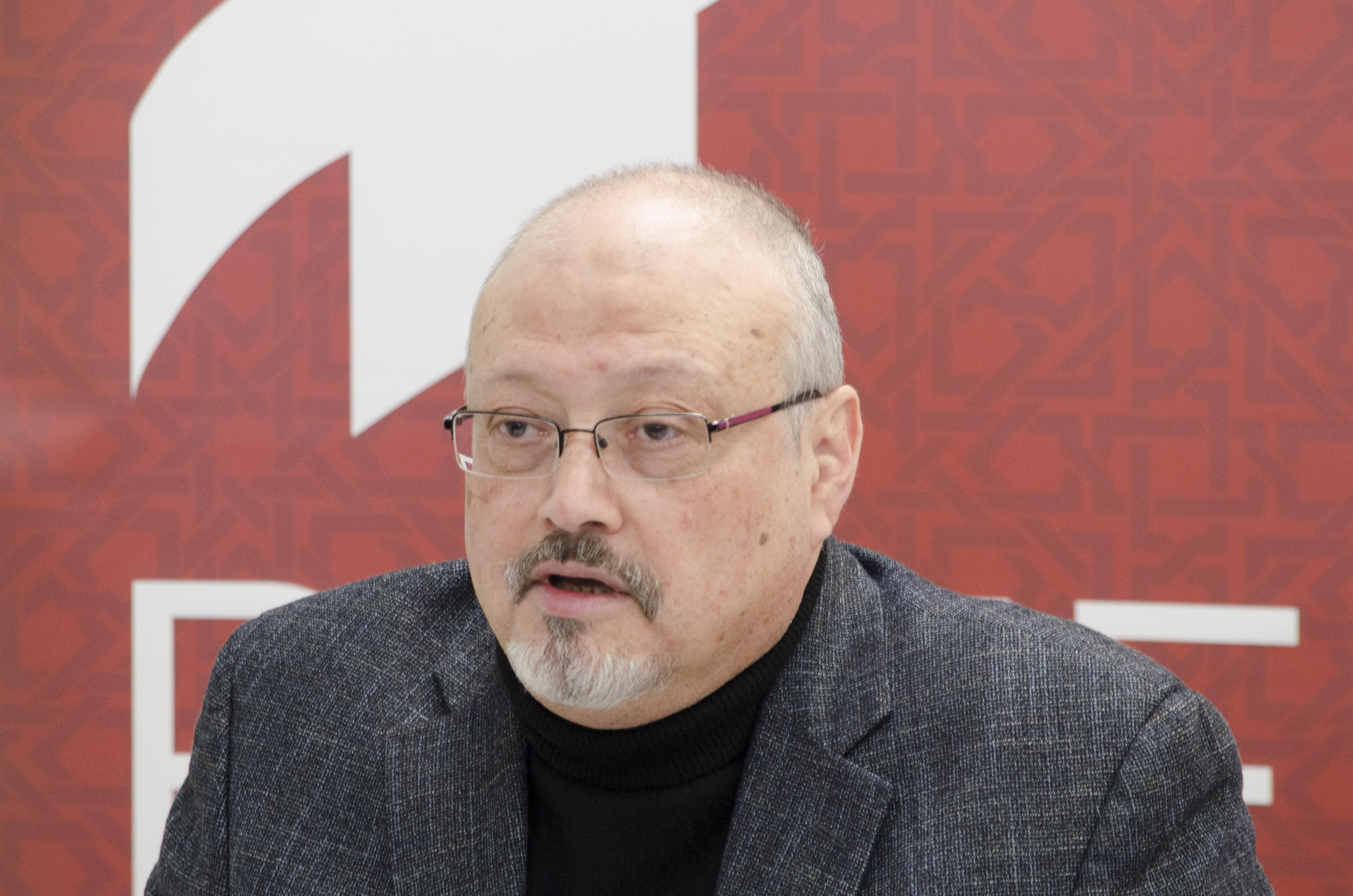 Saudi journalist, Global Opinions columnist for the Washington Post, and former editor-in-chief of Al-Arab News Channel Jamal Khashoggi offers remarks during POMED’s “Mohammed bin Salman’s Saudi Arabia: A Deeper Look”.March 21, 2018, Project on Middle East Democracy (POMED), Washington, DC.